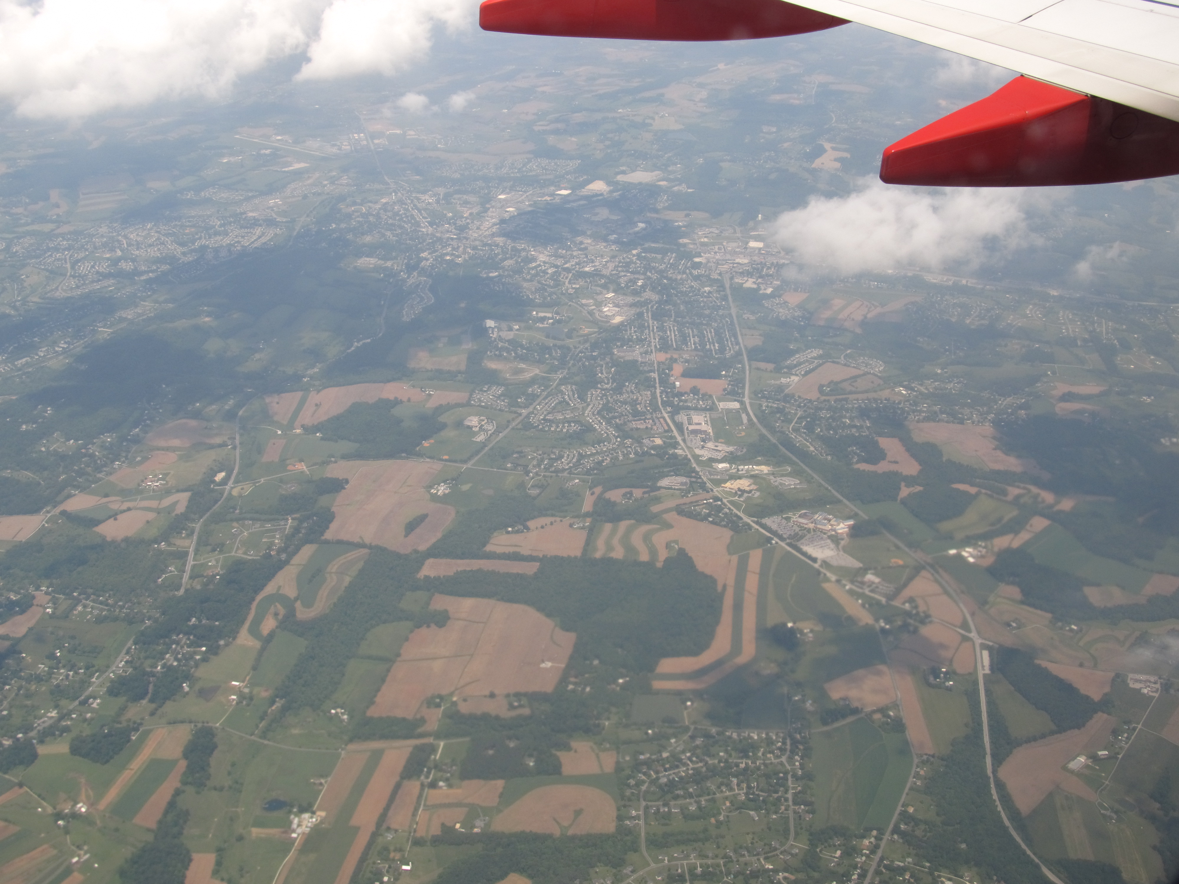 Westminster, Maryland